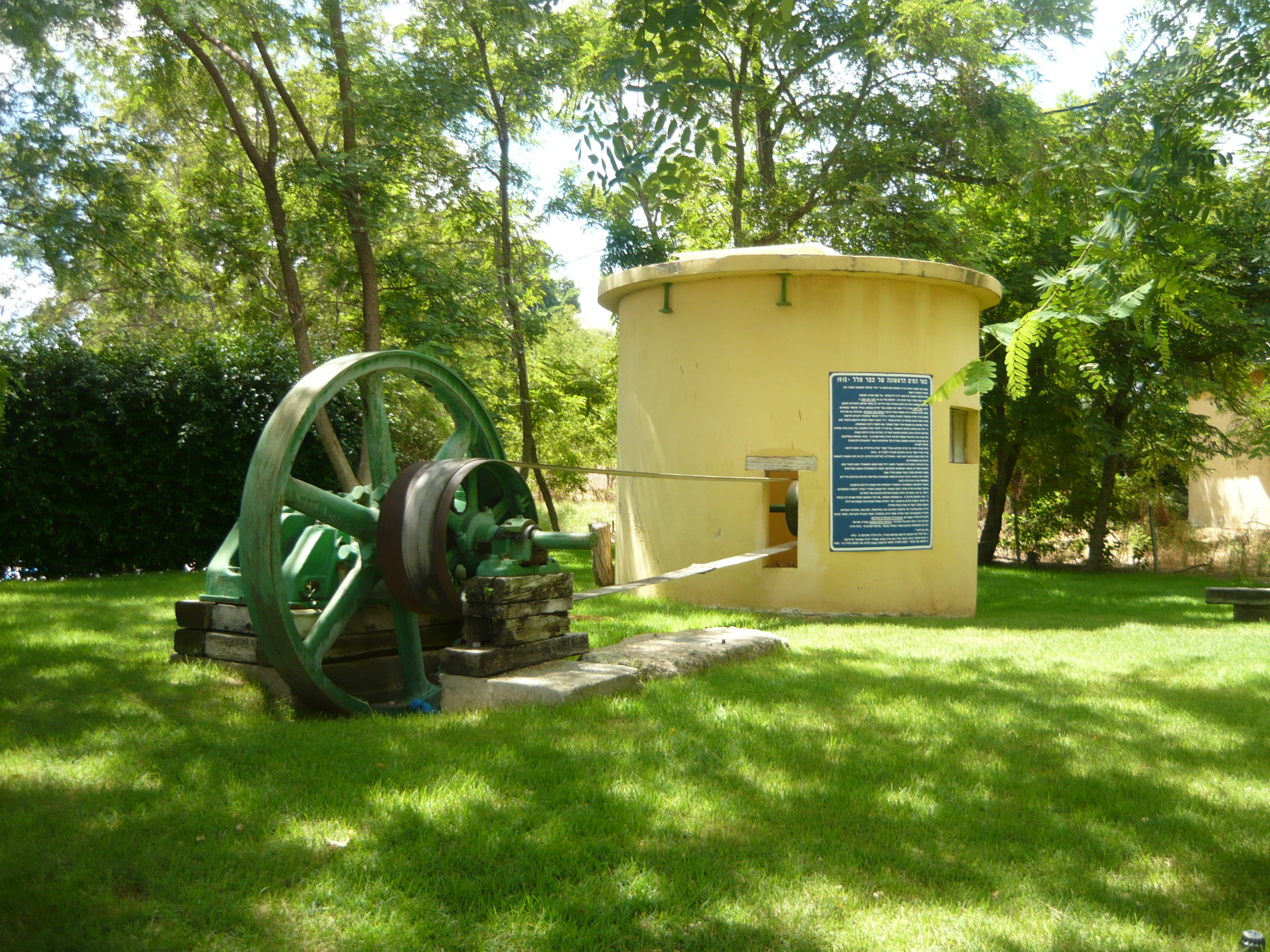 first water well in kfar Malal באר המים הראשונה בעין חי - כפר מל"ל